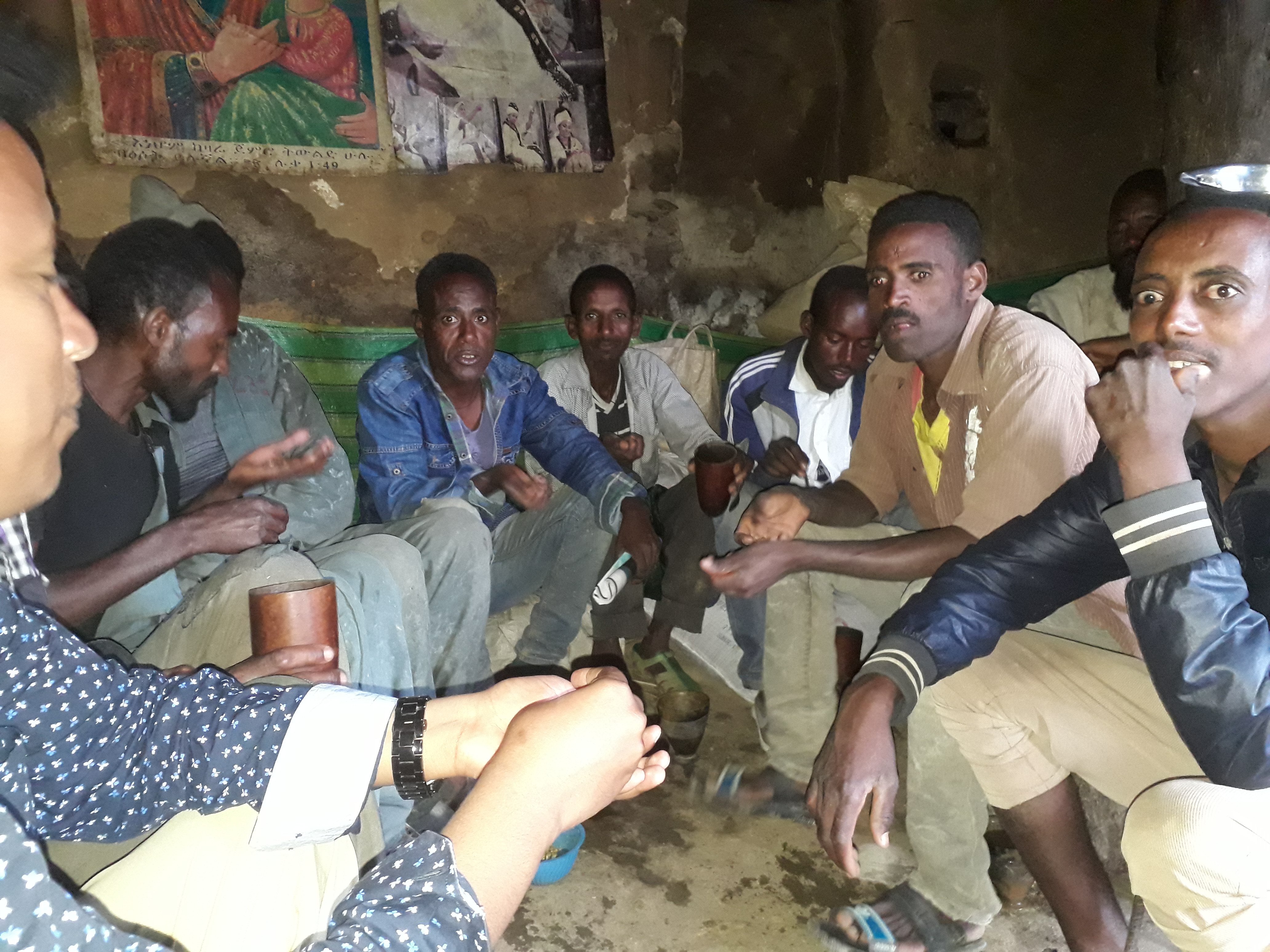 Customers of inda siwa at Werqamba, Tembien, Ethiopia